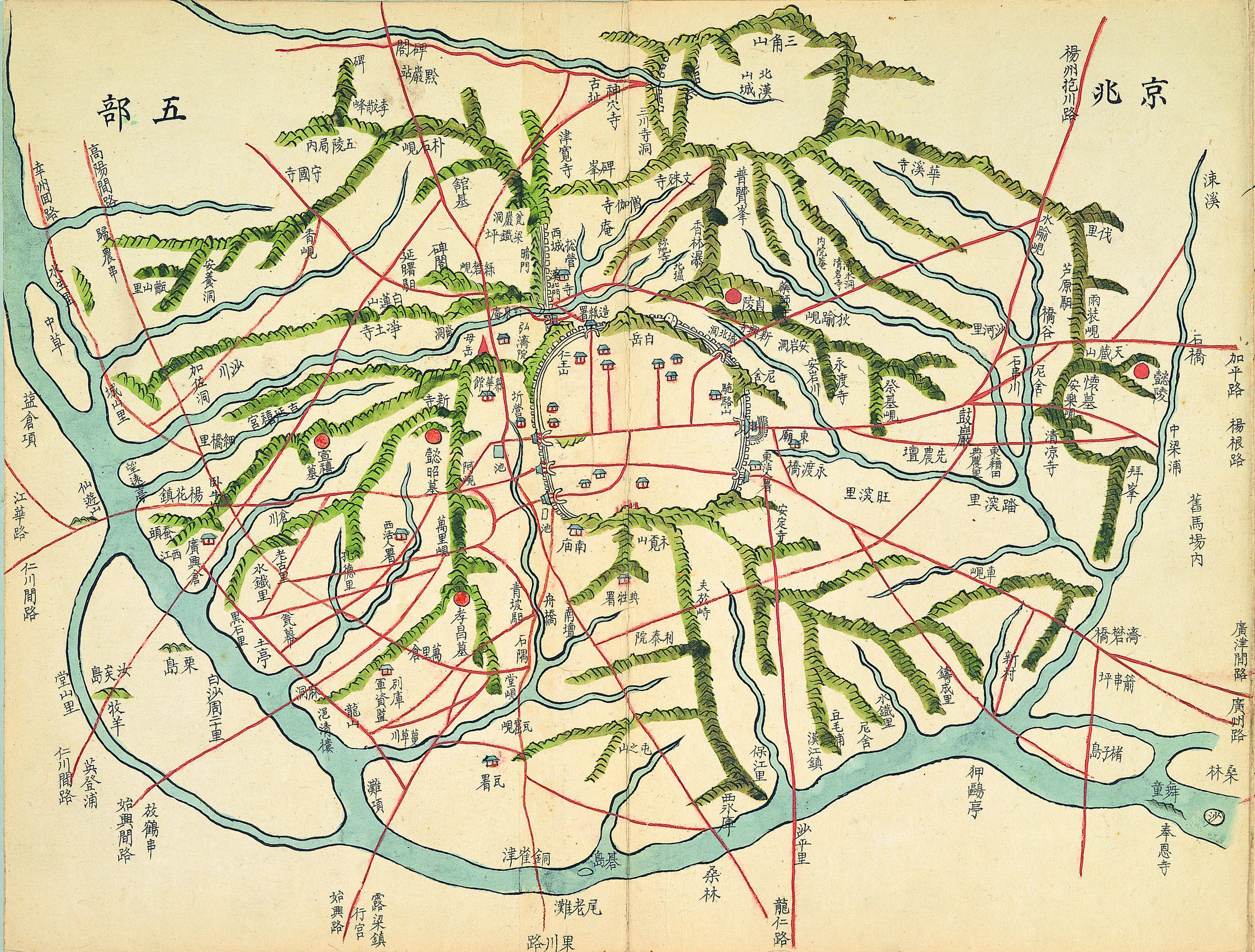 Supplementary Map of the Five Capital Areas